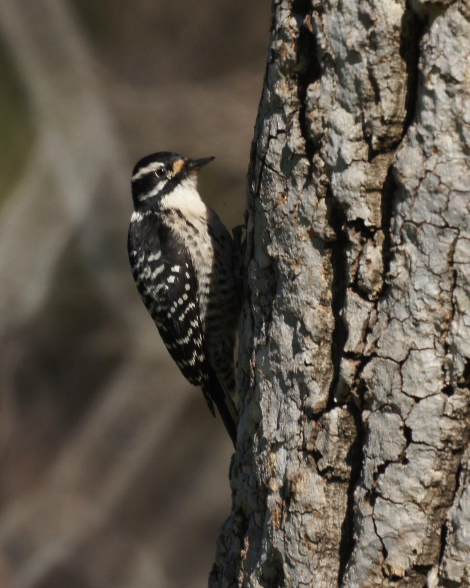 A female Nuttall's Woodpecker in Olive View, Sylmar, California, USA.